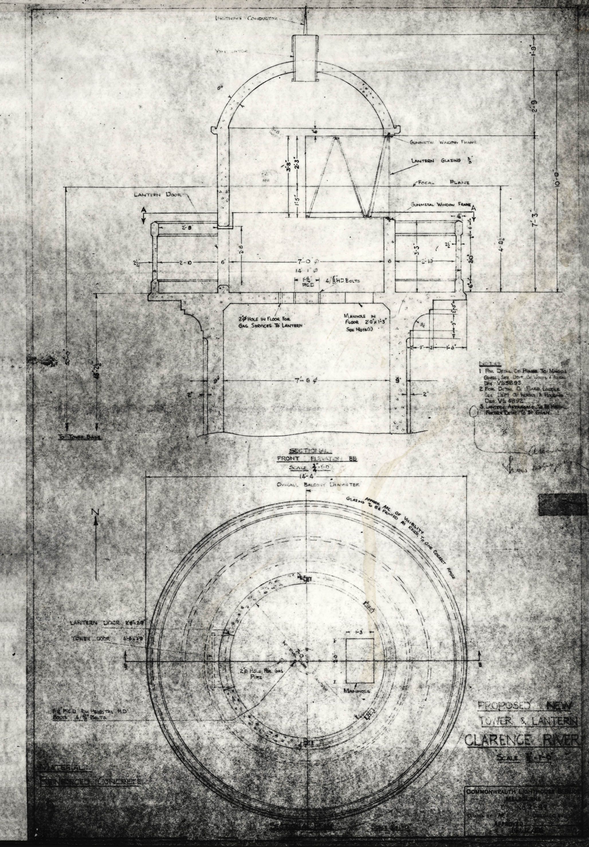 Clarence River Light, proposed plans for the new tower, 1951.jpg